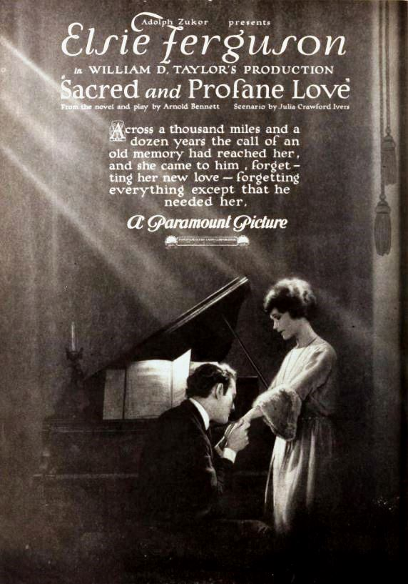 Advertisement for American silent drama film Sacred and Profane Love (1921) with Conrad Nagel and Elsie Ferguson, on page 12 of the May 7, 1921 Exhibitors Herald.